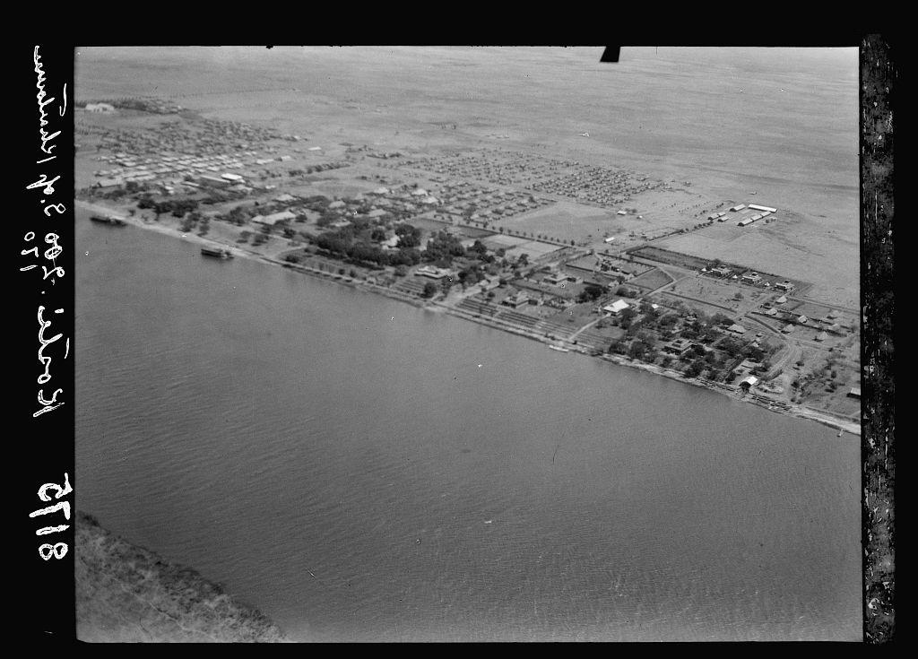 Air view of the Sudanese town of Kosti - named after a Greek trader - on the White Nile. Photo taken on a flight with Imperial Airways on a World Trunk route following the Nile from the Delta to the Victoria Nile and the Victoria Lake.